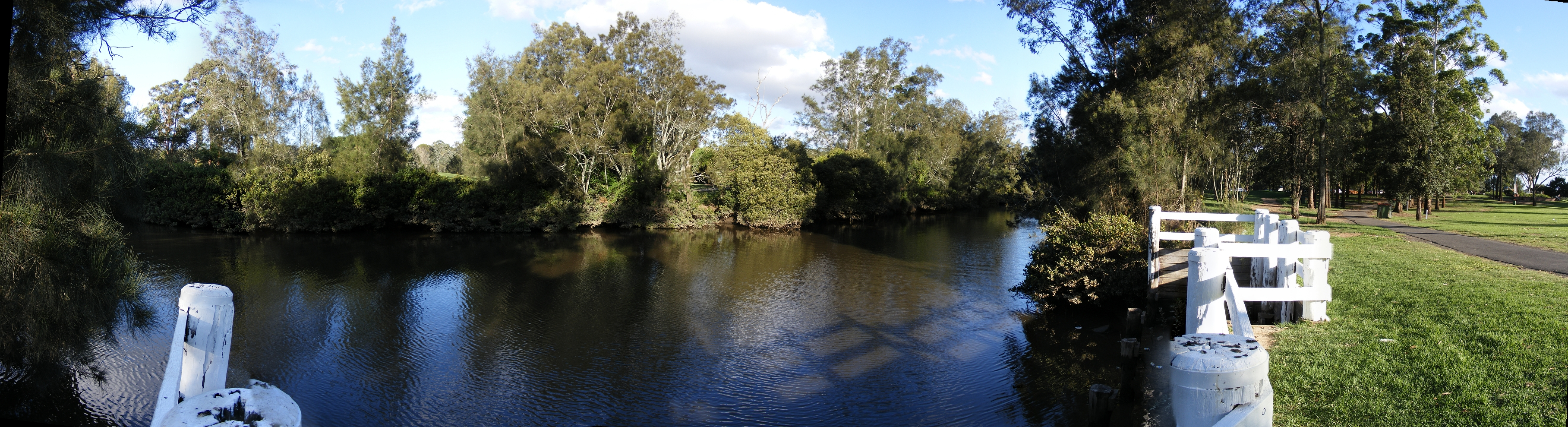 Garrison Point Georges Hall, New South Wales